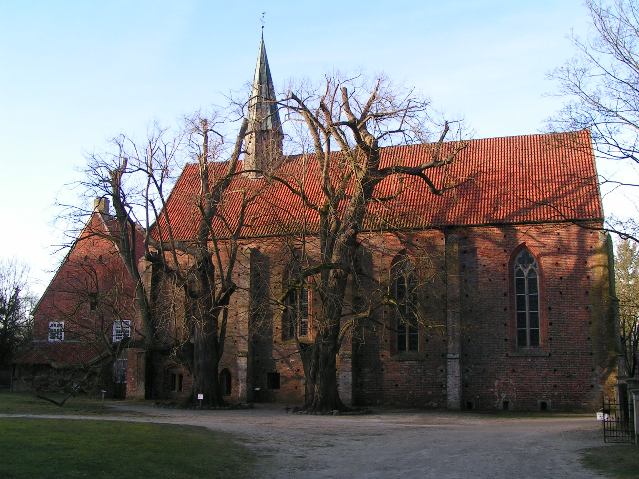 Seitenansicht des Schiffs von Stift Börstel